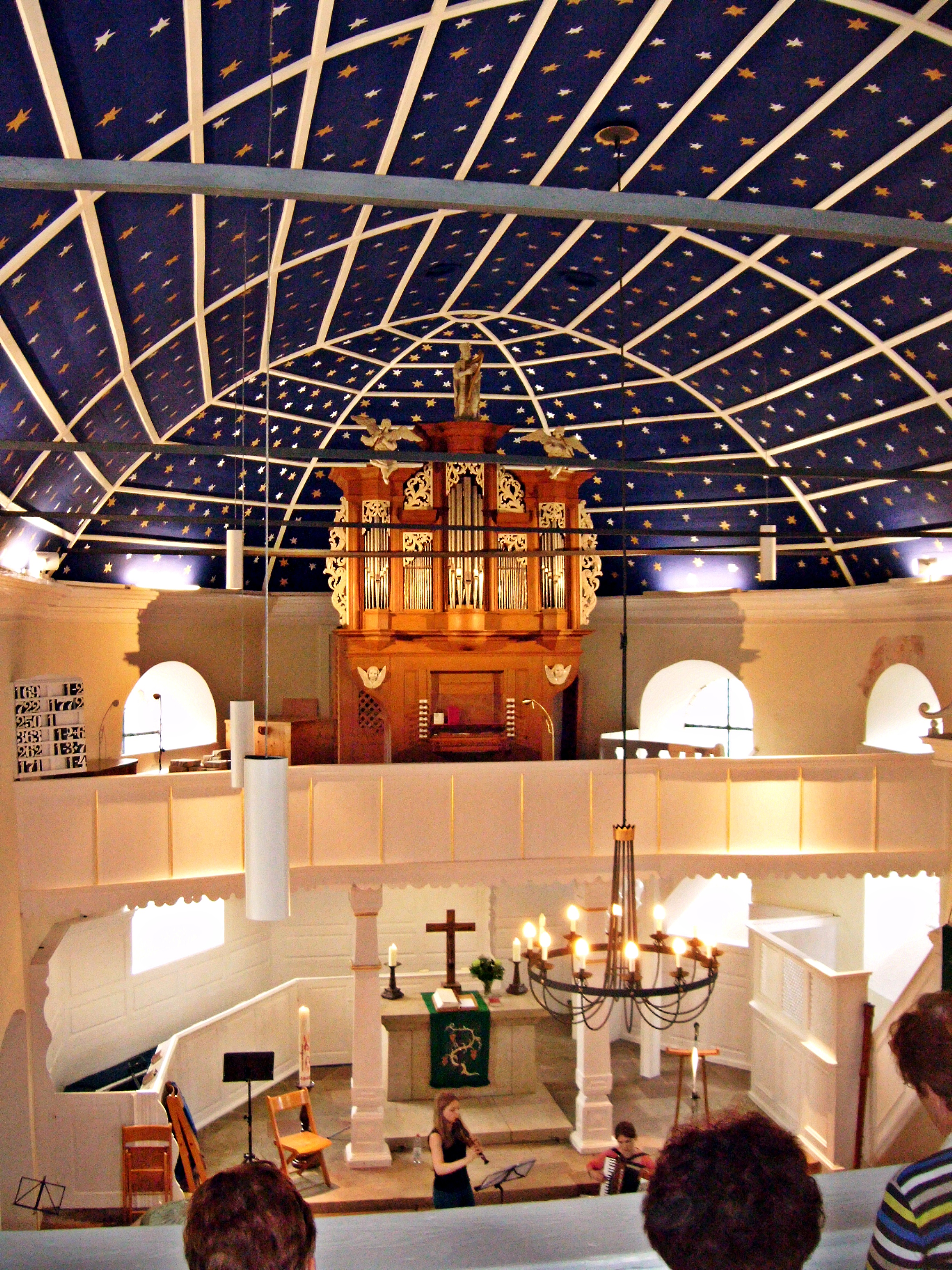 Prot. Peterskirche Sausenheim, innen